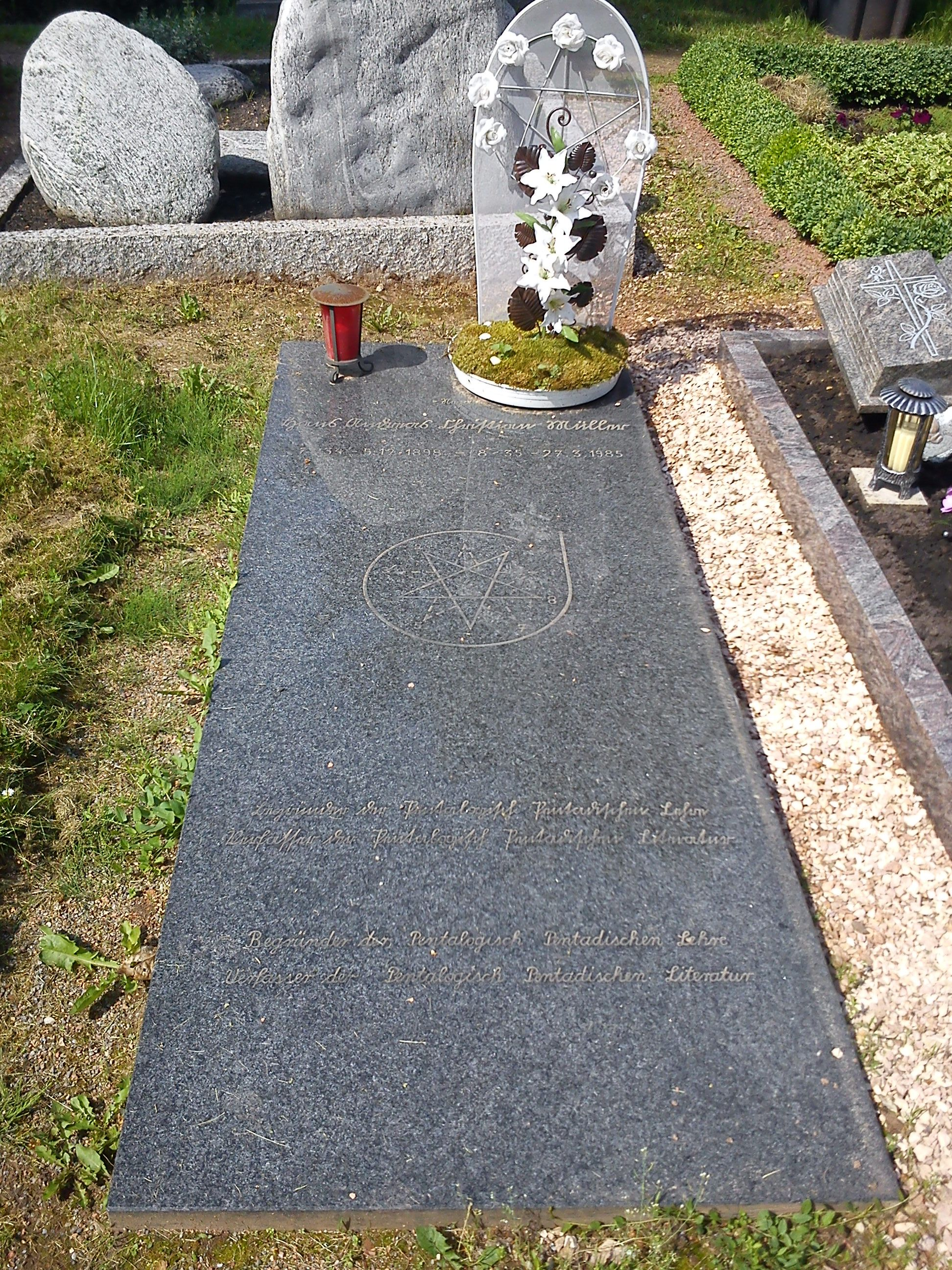 tomb of Hans Müller at the cemetry in Merzig/Saar